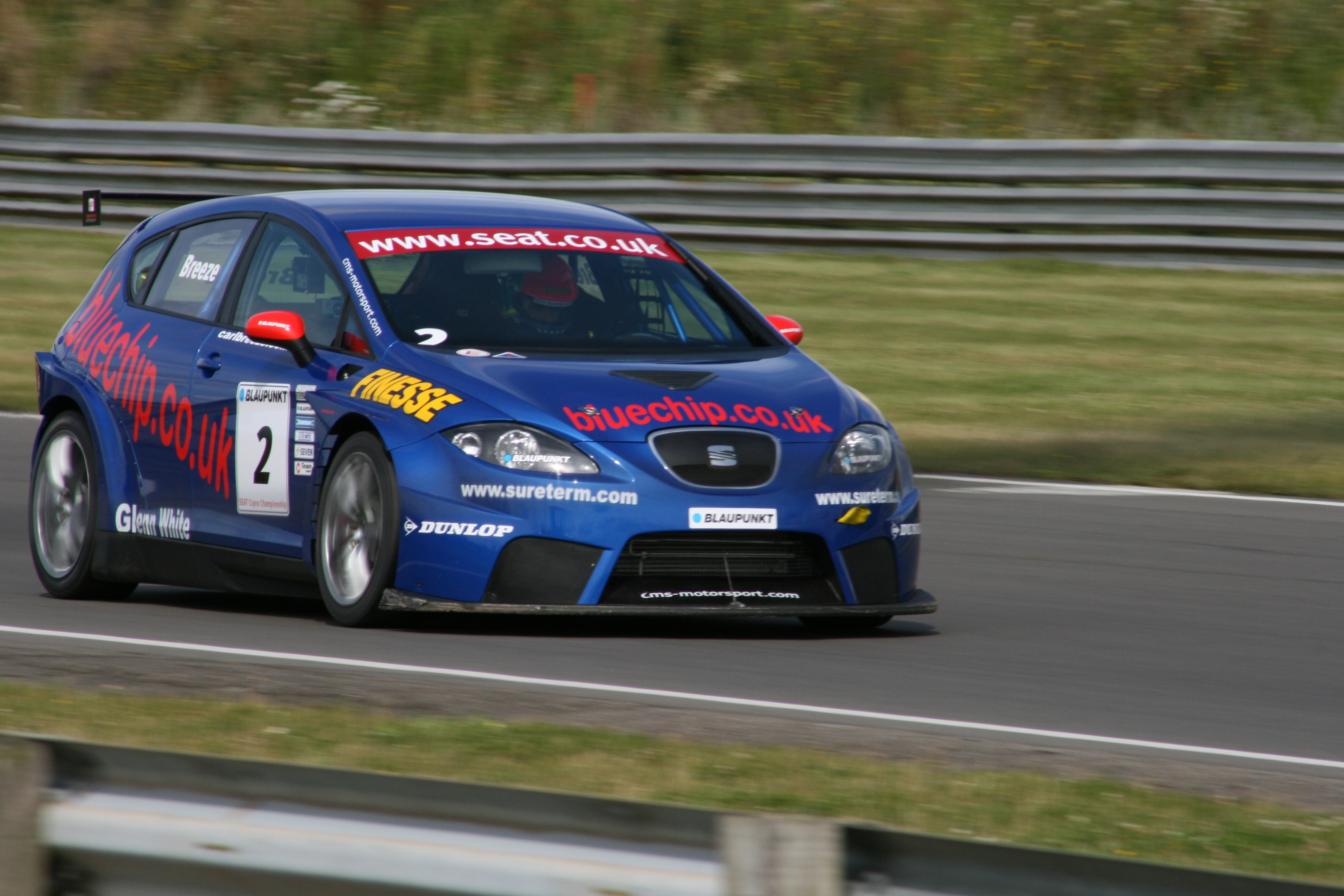 Carl Breeze driving in the 2007 SEAT León Cupra championship at Snetterton.